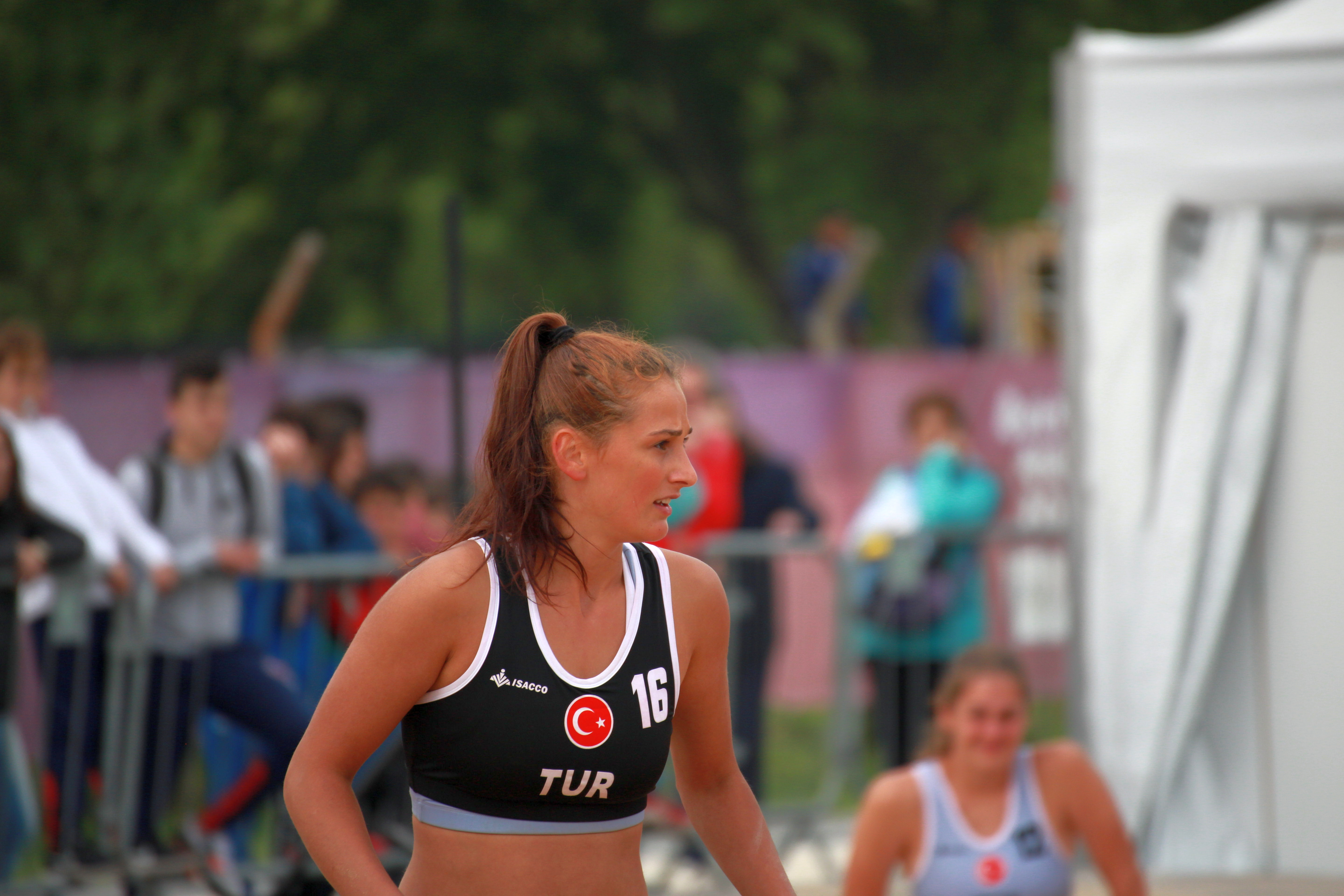 Beach handball at the 2018 Summer Youth Olympics at 12 October 2018 – Girls Women's Placement Match 9-10 – Turkey-Hong Kong 2:0